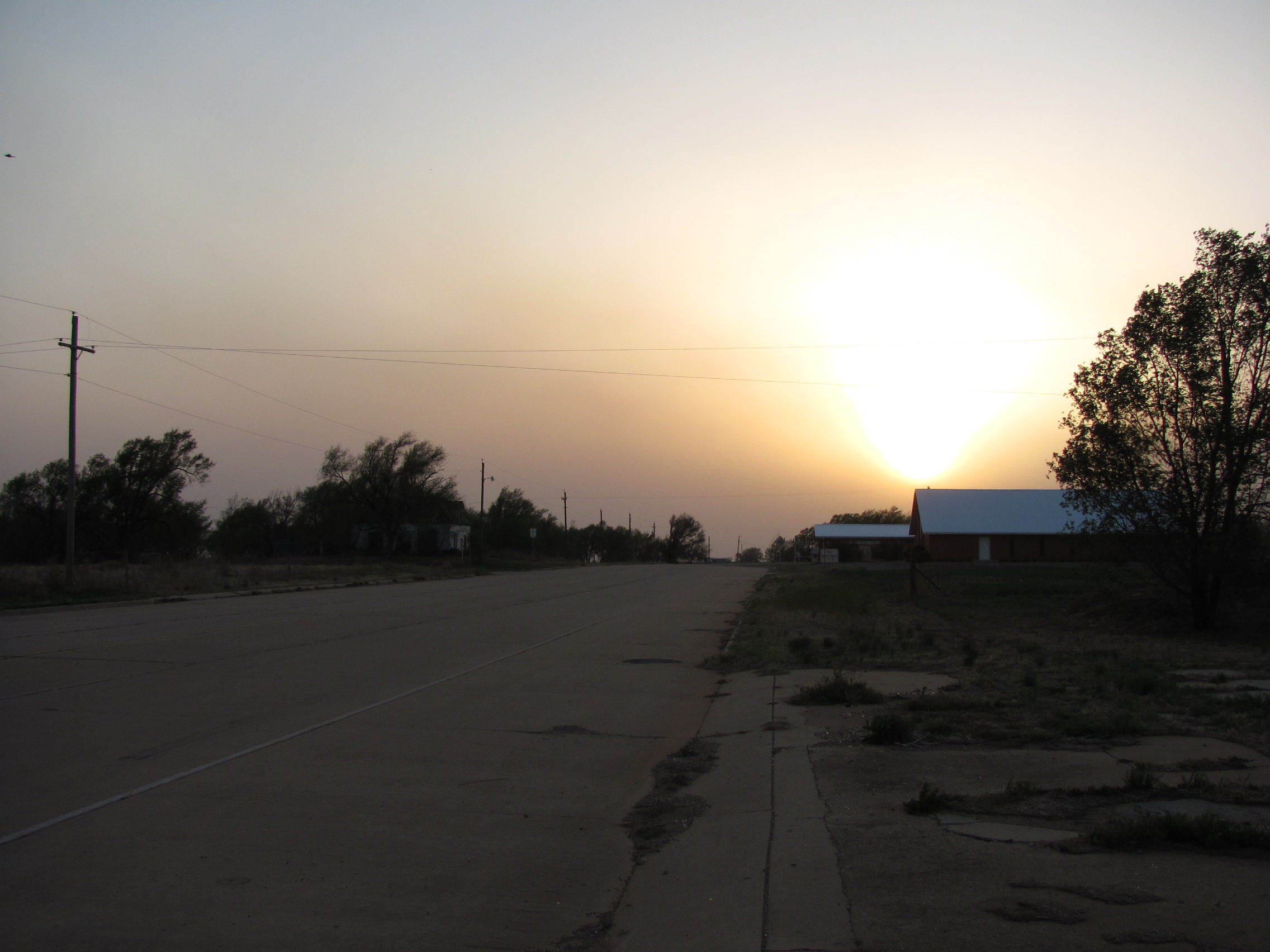 5th Street, Texola Oklahoma